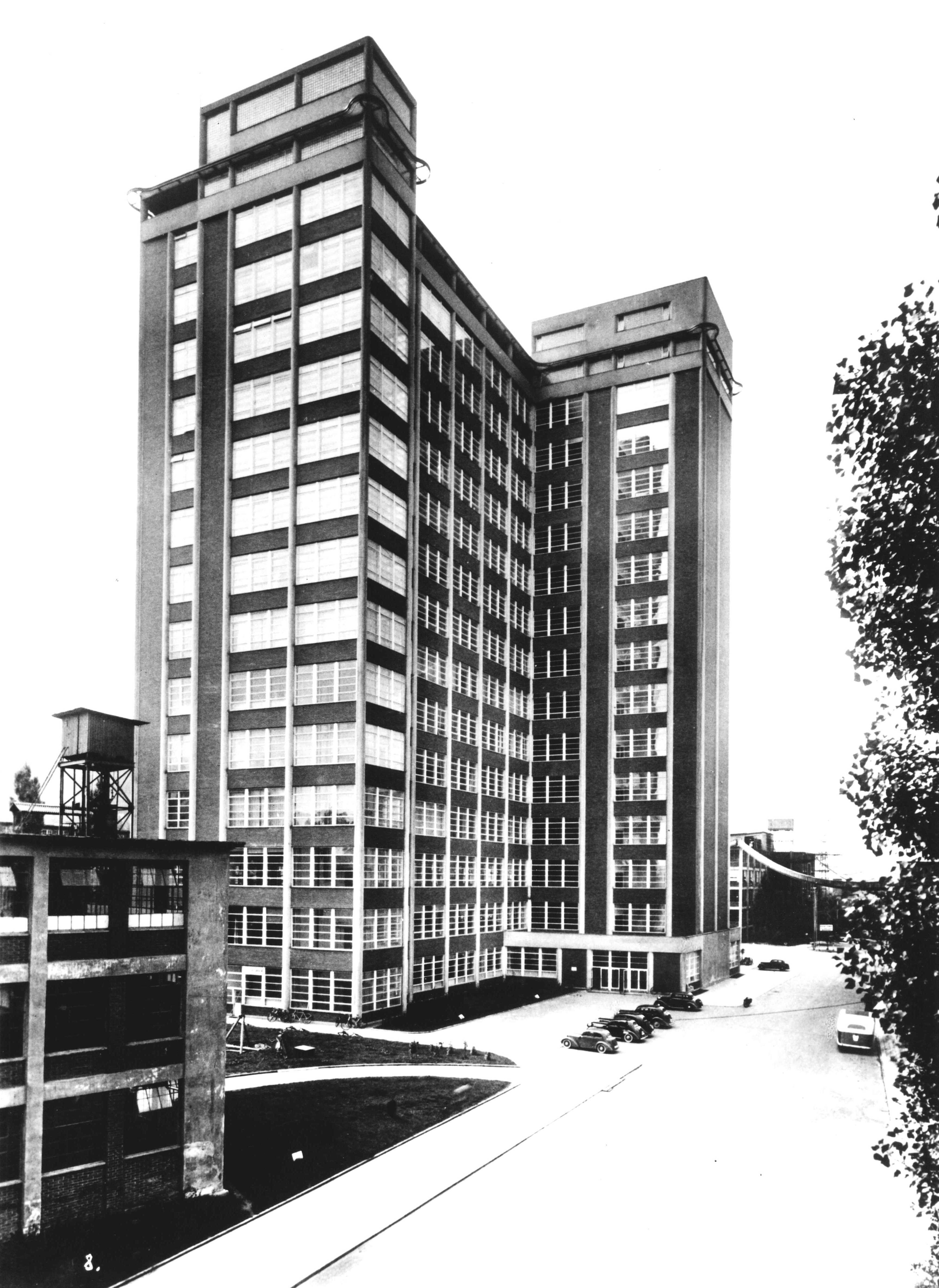 Bata's Skyscraper in Zlin (Czech Republic)